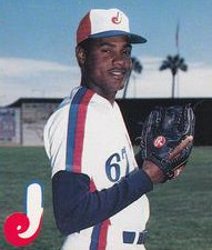 Professional baseball player Yorkis Perez